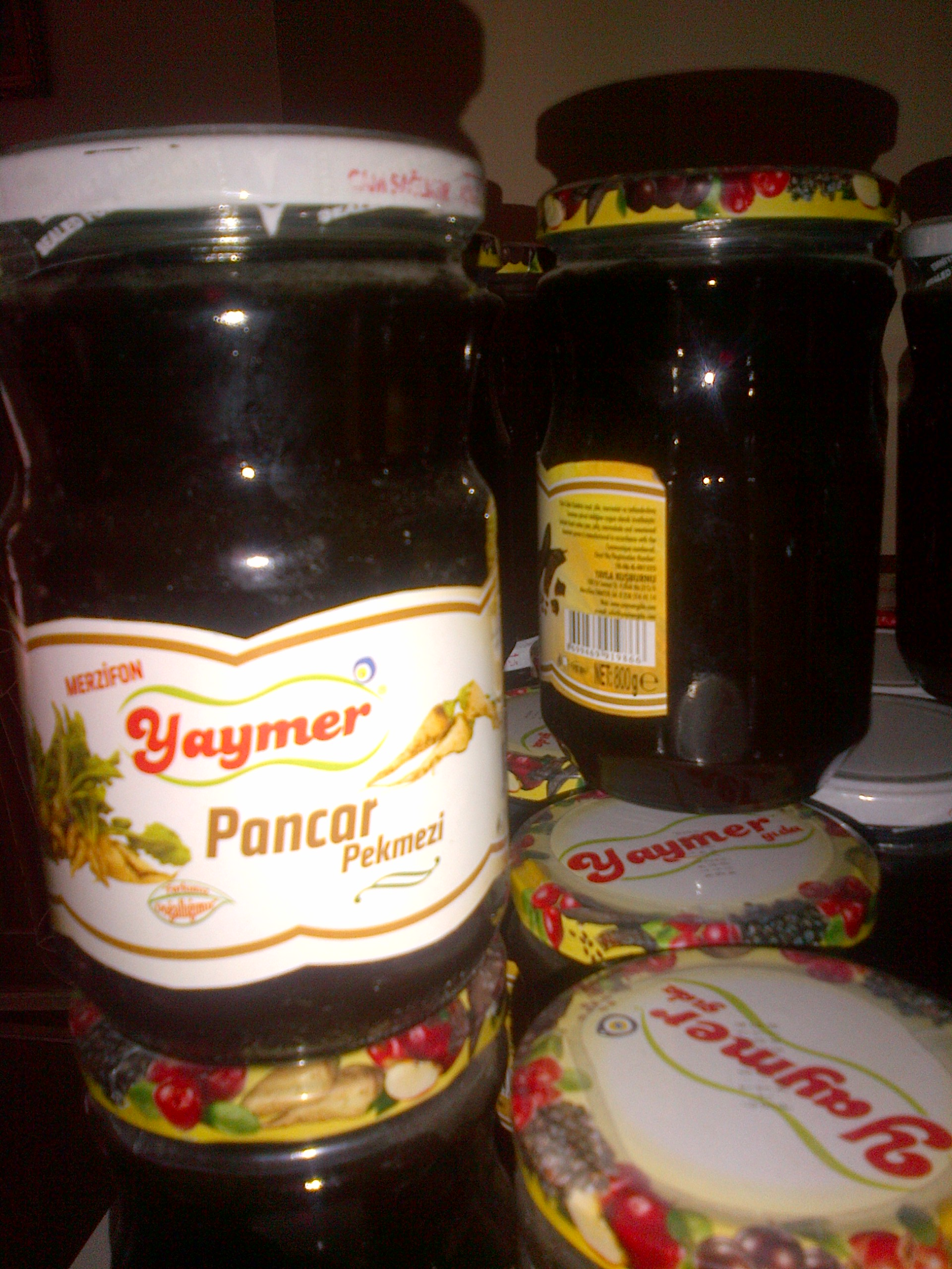 Beetroot pekmez from Turkey.